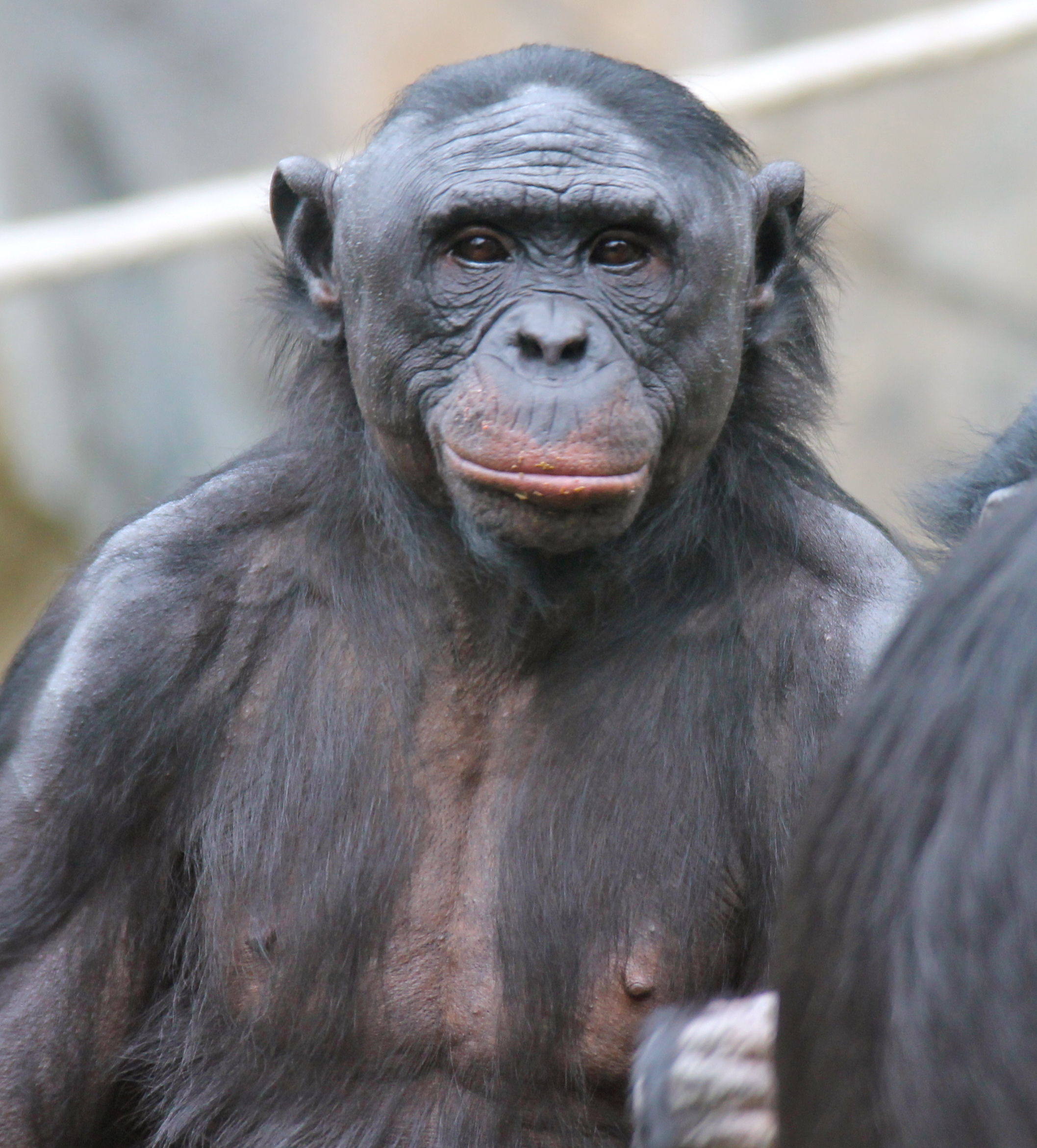 Bonobos